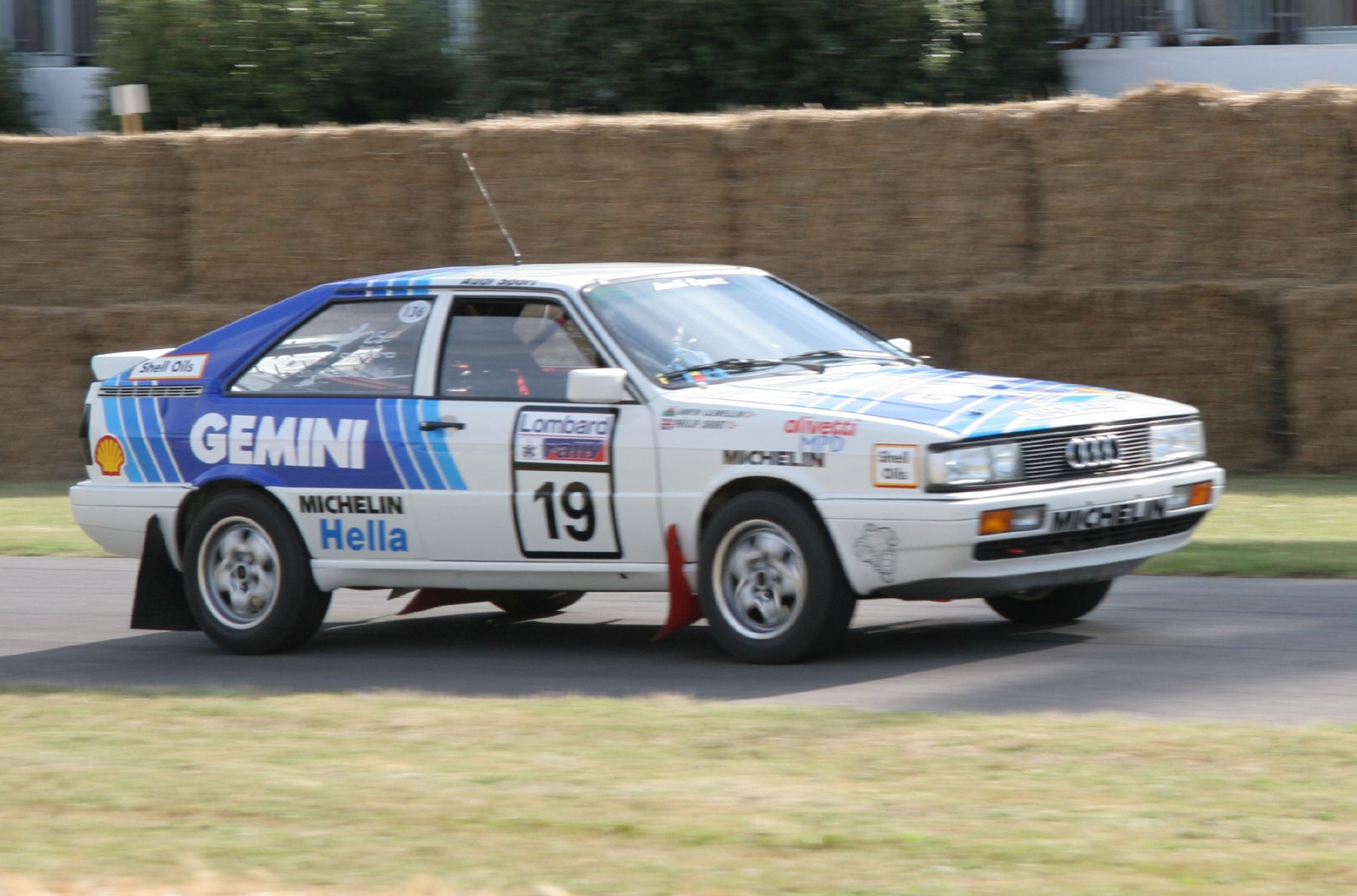 Audi Coupé Quattro driven by Phil Short with David Llewellin that placed 6 in the 1987 Lombard RAC Rally